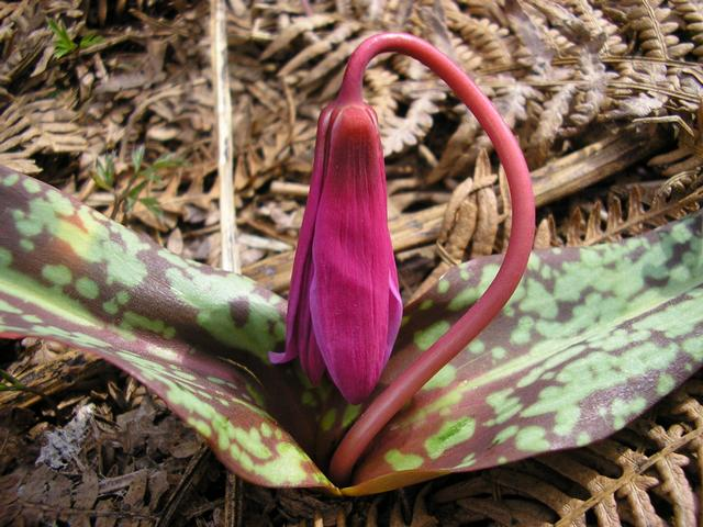 (en) Erythronium dens-canis, a photography originating of the internet site The accord of the autor, H. Brisse, is here. (fr) Erythronium dens-canis, une photographie issue du site internet L'accord de l'auteur, H. Brisse, se situe ici.